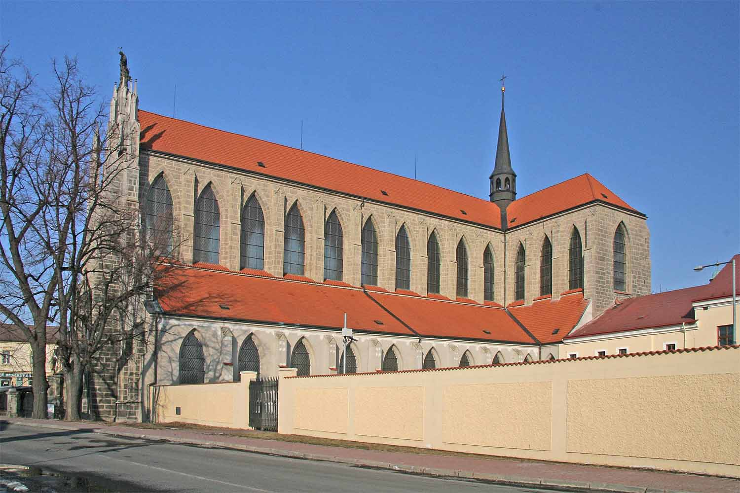 Cathedral of Assumption of Virgin Mary in Sedlec (part of Kutná Hora), Czech Republic.